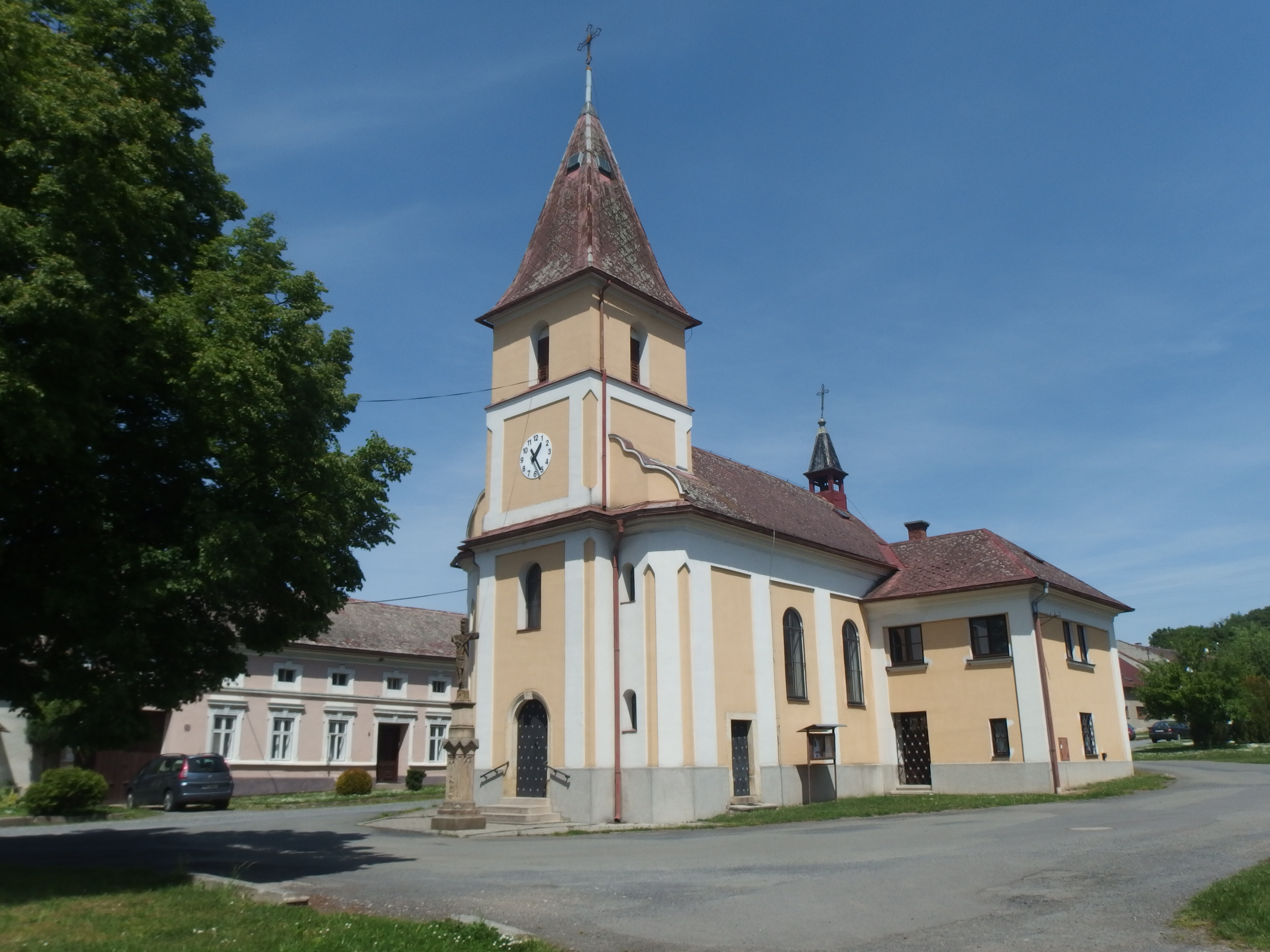 Krčmaň, Olomouc District, Czech Republic. Church of Saint John the Baptist.